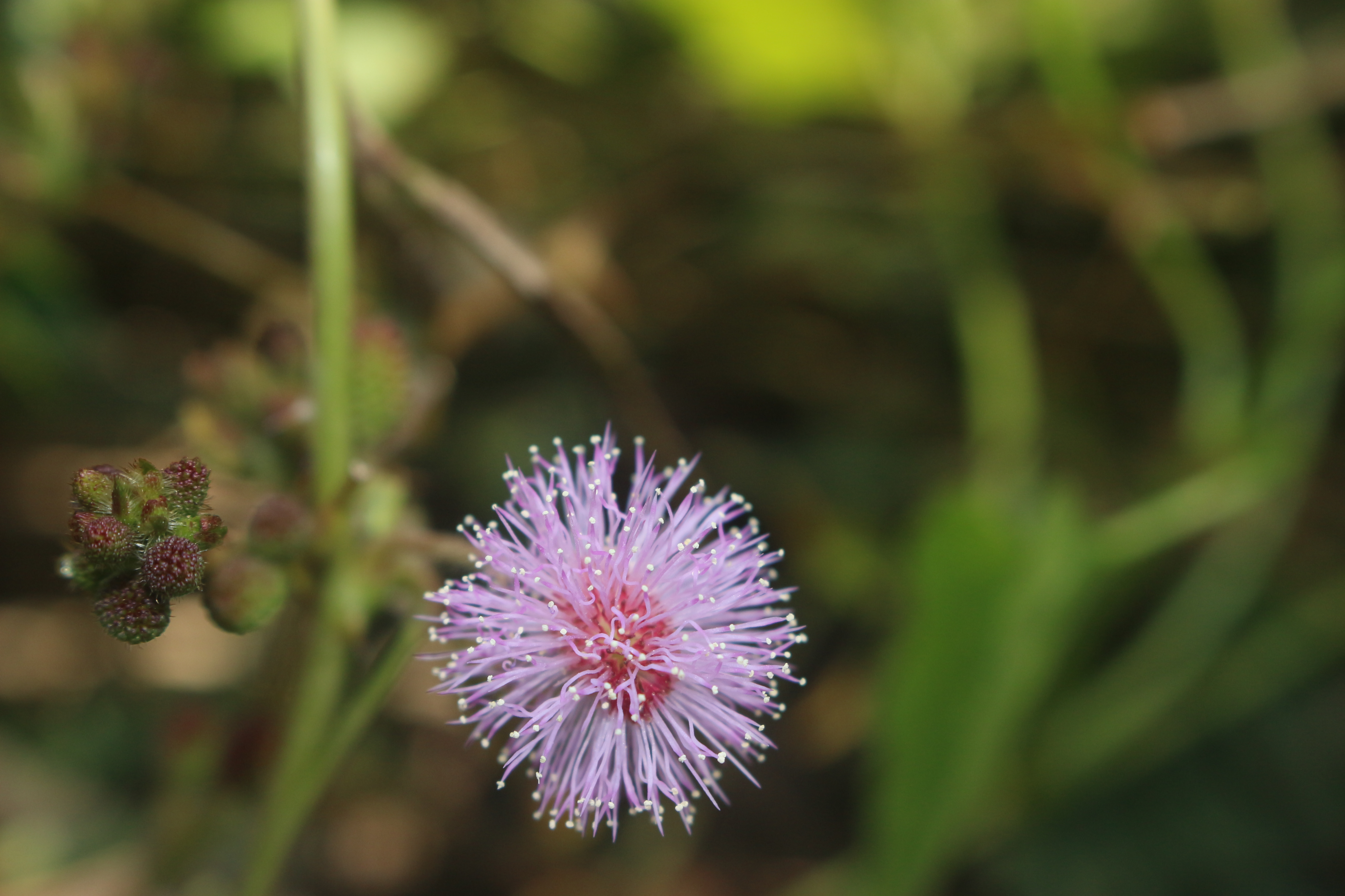 Mimosa Pudica Geneve